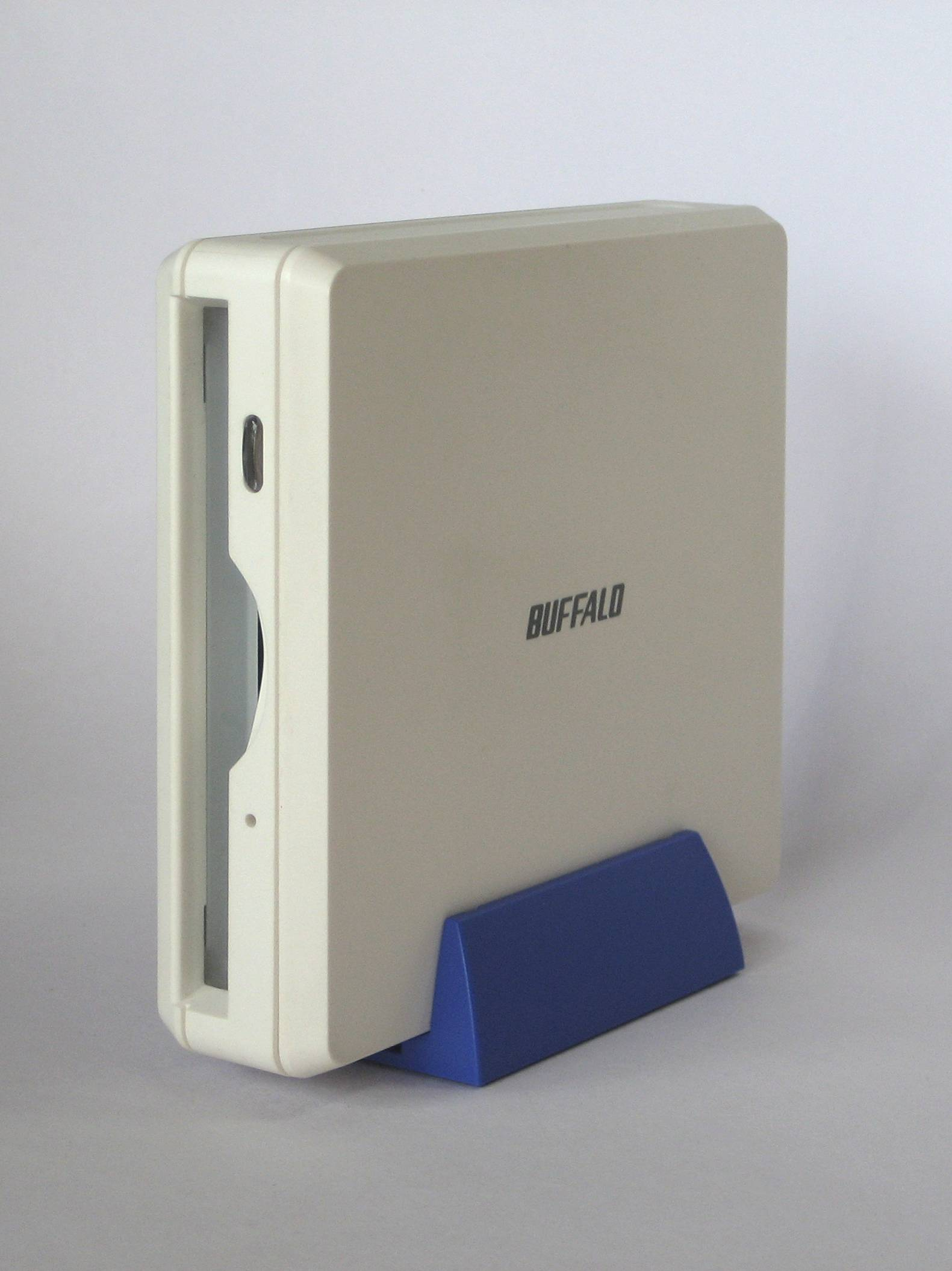 Buffalo MO-PL640U2 is an MO disk drive (640MB maximum).